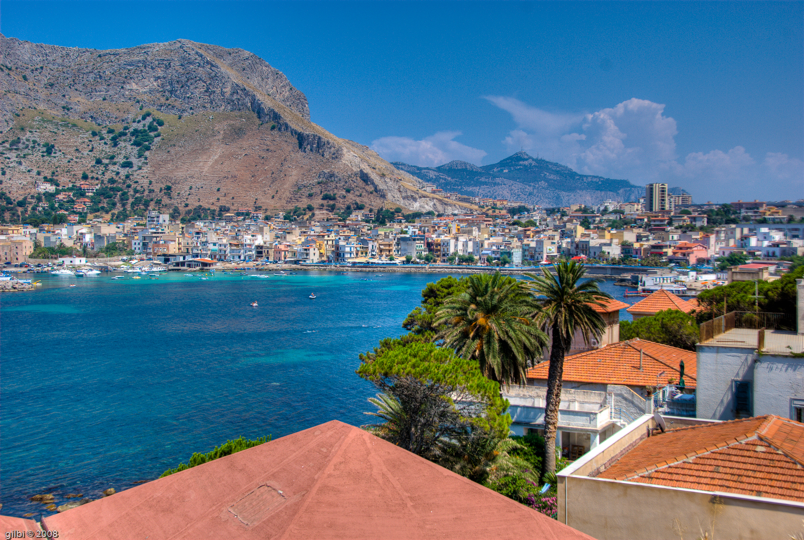 Map it: Google Earth | Street | Satellite | Hybrid | Nautical